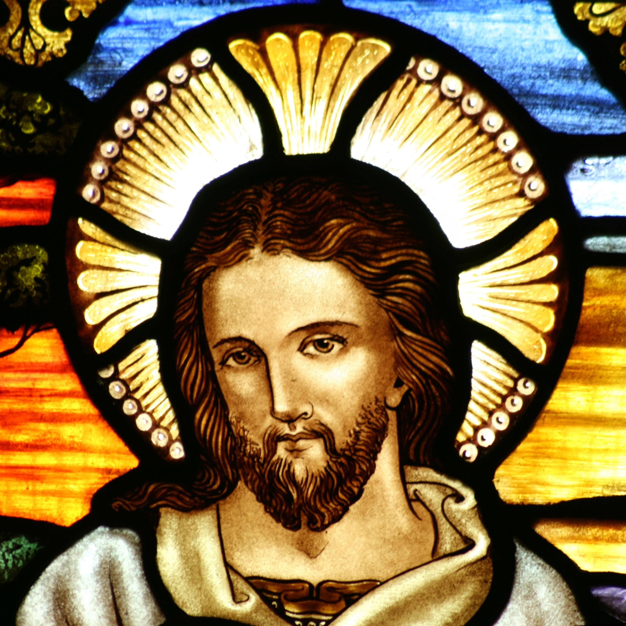 Stained glass at St John the Baptist's Anglican Church [1], Ashfield, New South Wales. Illustrates Jesus' description of himself "I am the Good Shepherd" (from the Gospel of John, chapter 10, verse 11). This version of the image shows the detail of his face. The memorial window is also captioned: "To the Glory of God and in Loving Memory of William Wright. Died 6th November, 1932. Aged 70 Yrs."